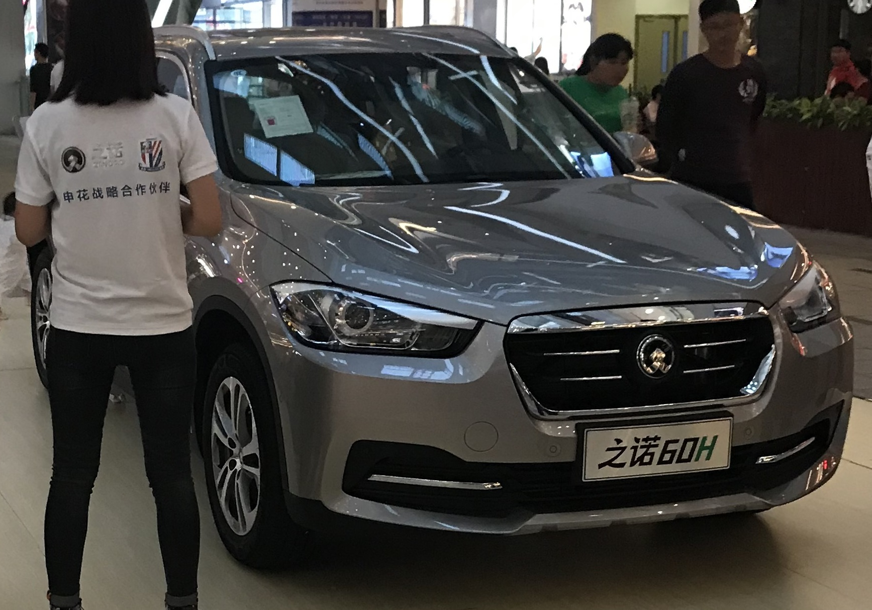 BMW-based Zinoro 60H EV on display front view.